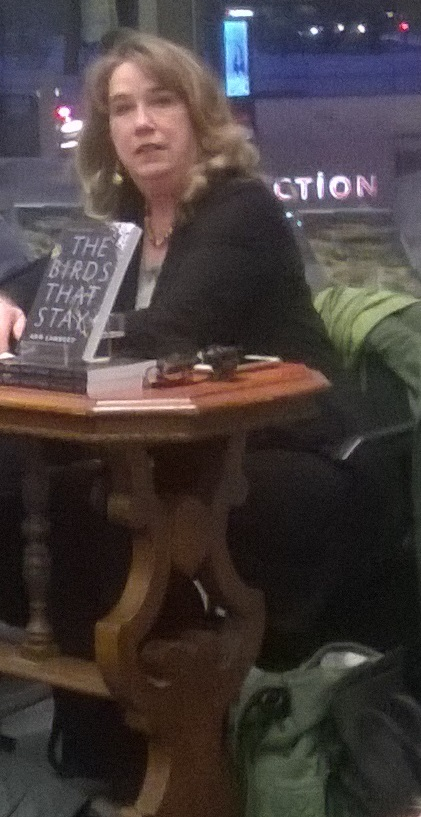 Ann Lambert photographed in Montréal , Québec , Canada.